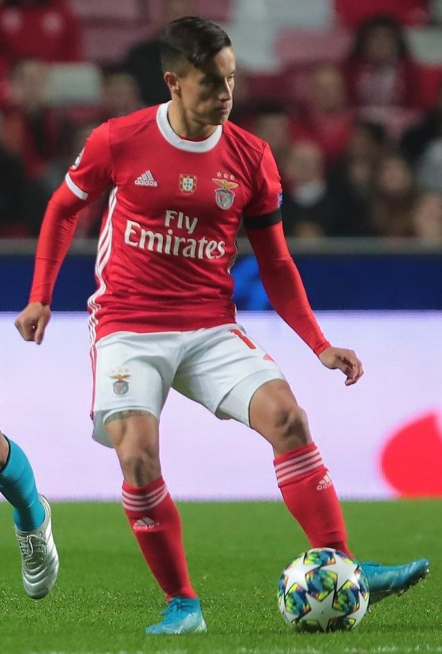 Benfica-Zenit UEFA Champions League 2019/20 (10/12/2019)